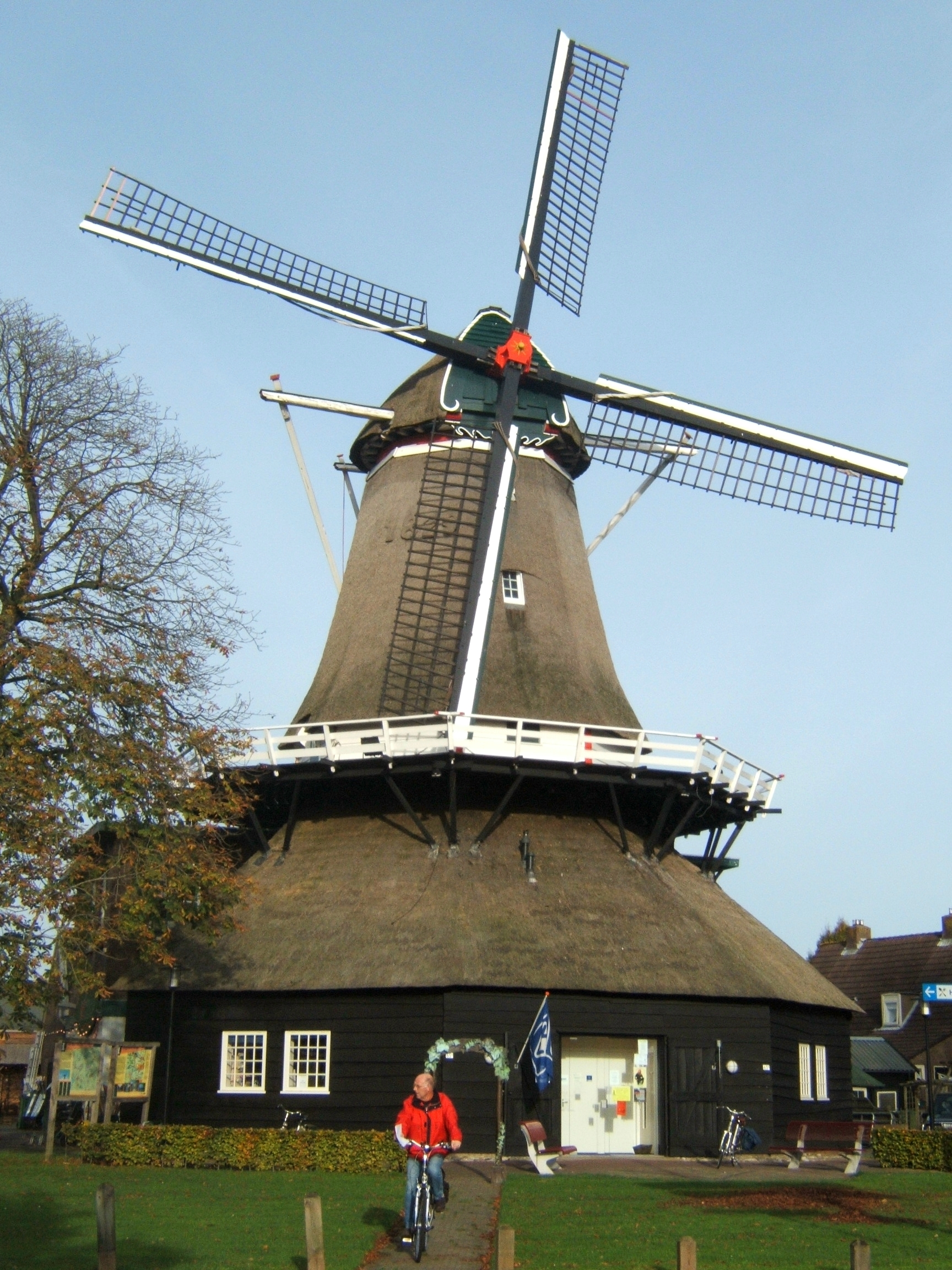 Wiekermeule, windmill in De Wolden, Drenthe, NL.